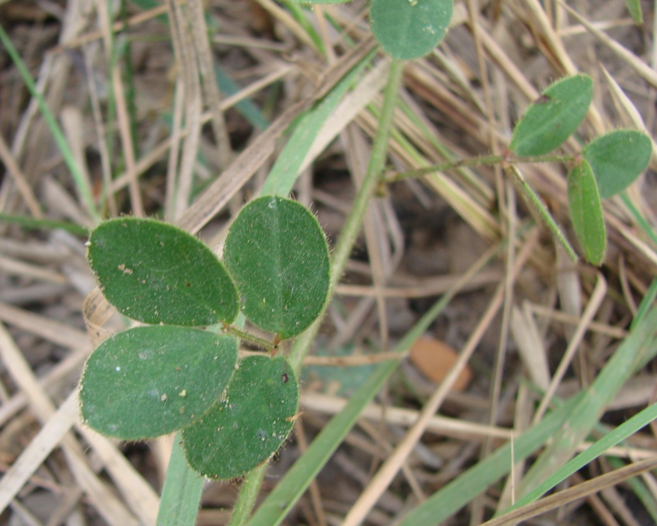 Chamaecrista fagonioides var. macrocalyx (H.S.Irwin & Barneby) H.S.Irwin & Barneby - FABACEAE - Cachoeira do Tororó - Brasília - Distrito Federal - Brasil.